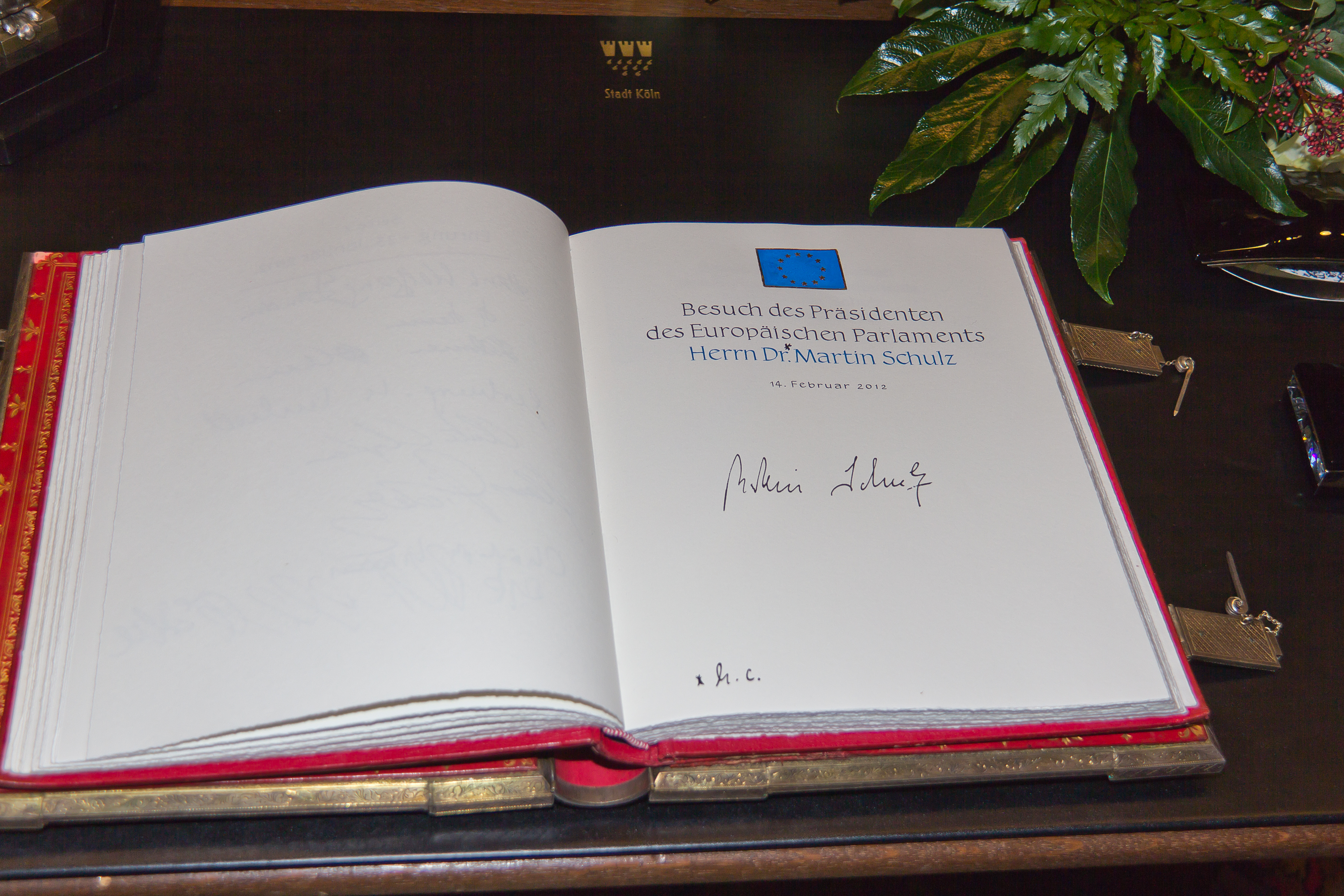 Welcome of the President of the European Parliament, Martin Schulz, by the Lord Mayor of Cologne, Jürgen Roters, in the townhall of Cologne, Germany.The visitor's book of Cologne with the signature of Martin Schulz.